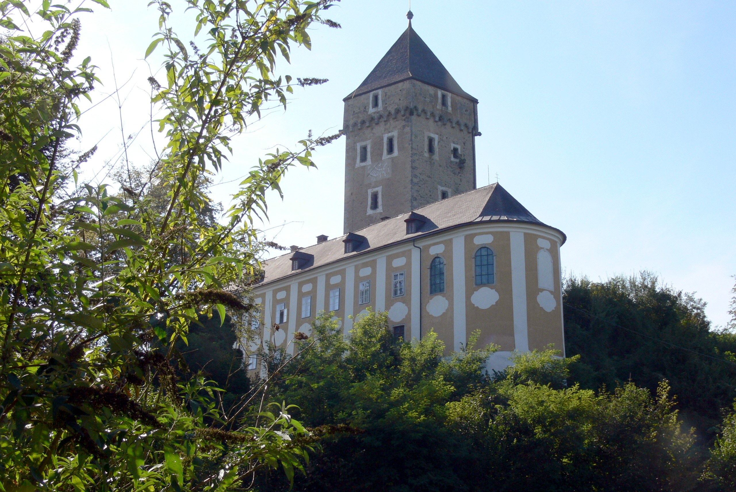 Neuhaus castle ( Upper Austria ). New castle and keep.